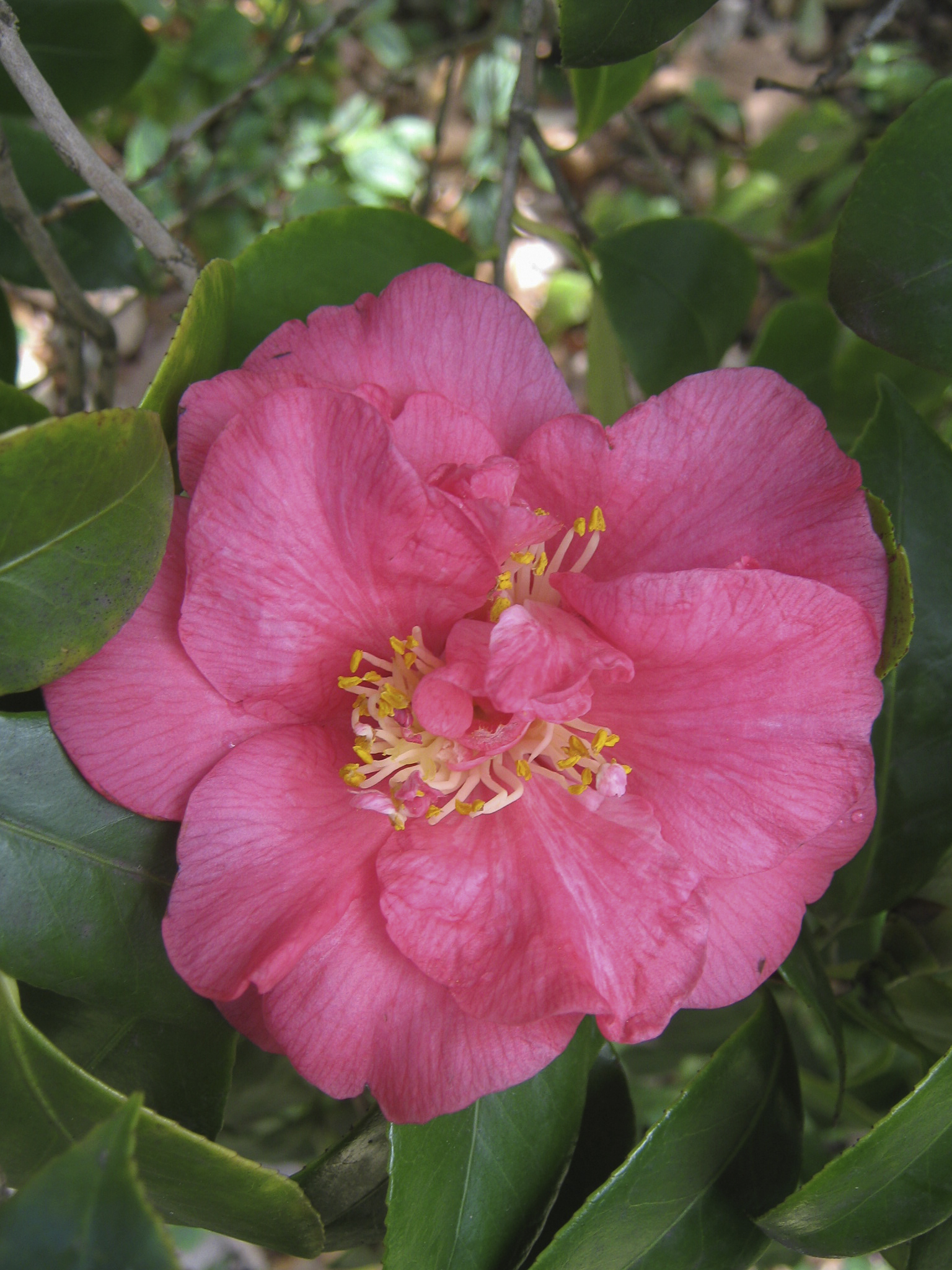 Camellia 'Beverley Caffin Rosea' bred by E.G. Waterhouse in Gordon 1947; photographed in the Royal Botanic Gardens, Melbourne